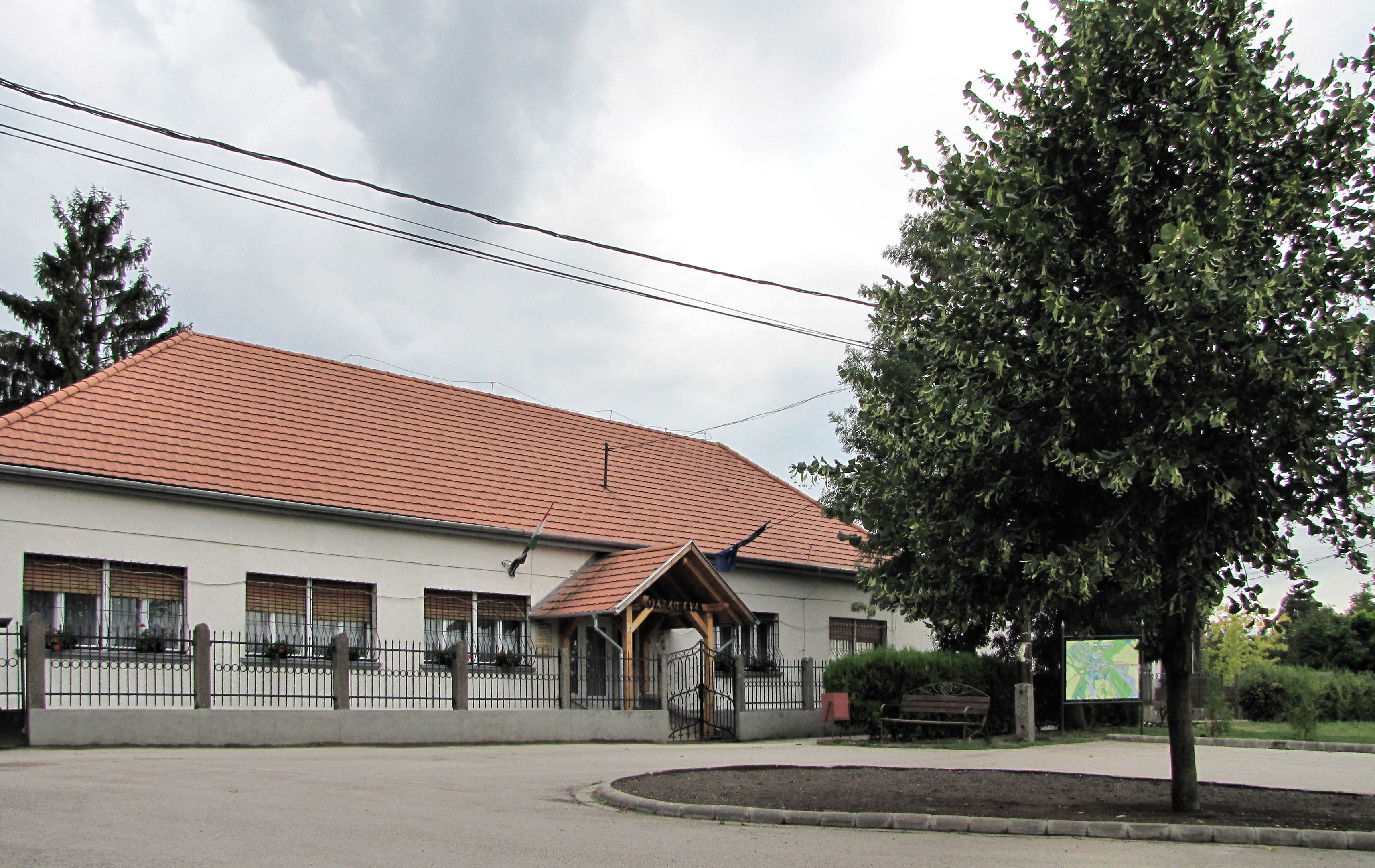 Előszállás, municipality. Originally built in 1928.